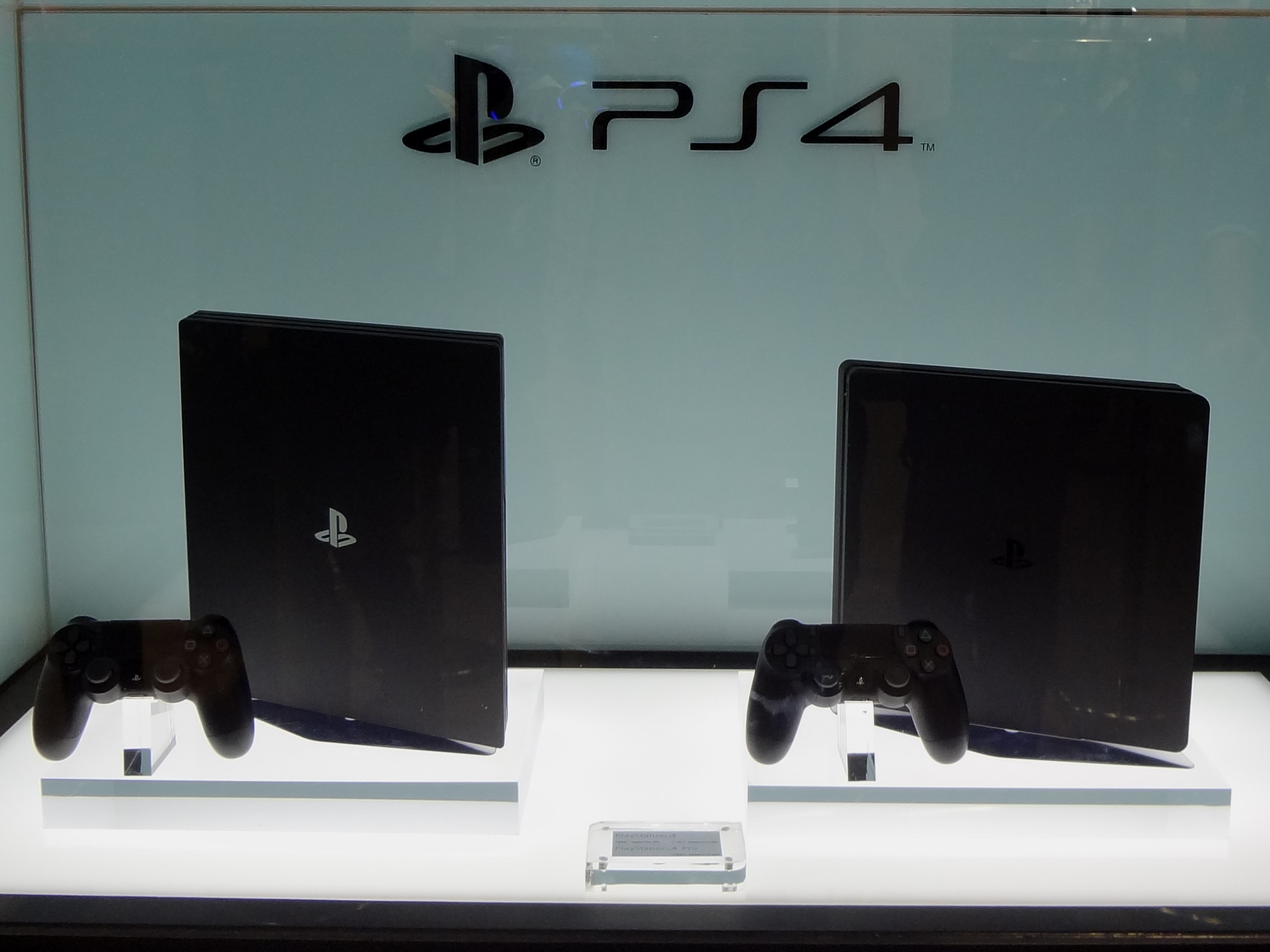 中文（台灣）: 2016年台北資訊月，台灣索尼攤位展示的PlayStation 4 Pro與PlayStation 4 Slim樣機。